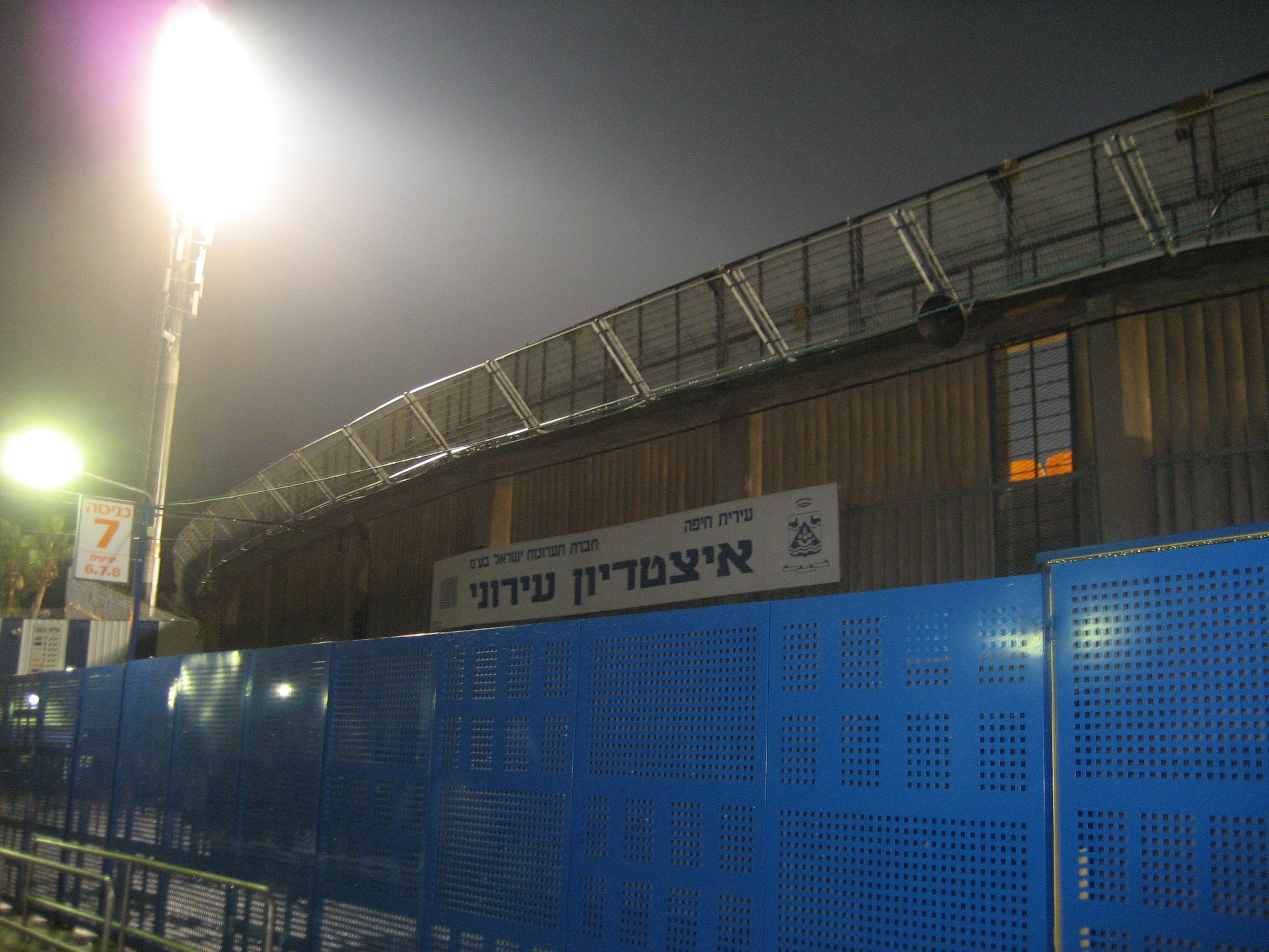 Facade of Qiryat Eliezer Stadium.